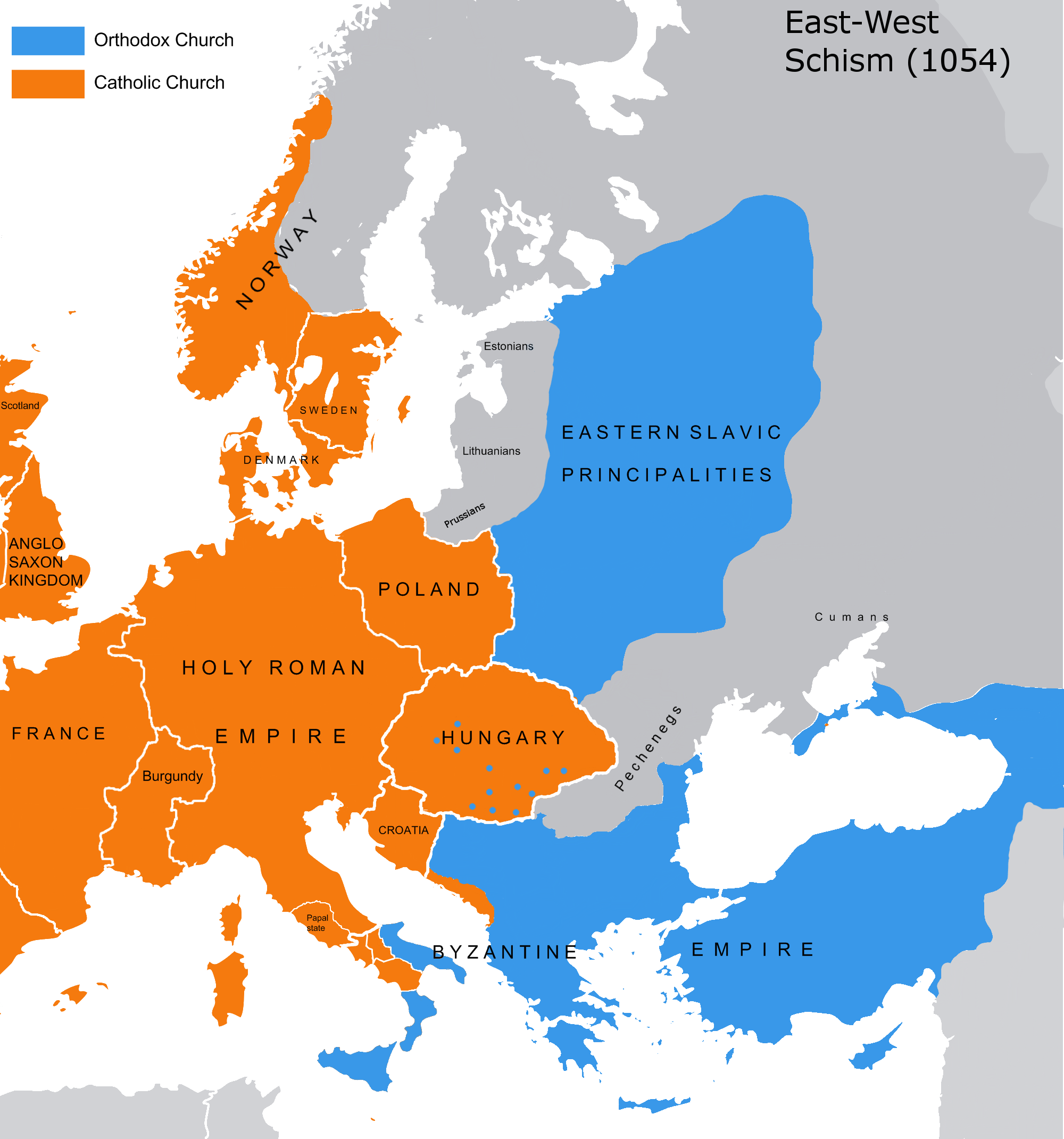 The map of the eastern/western allegiances in 1054 with the former country borders (showing dominant religions on a state level).